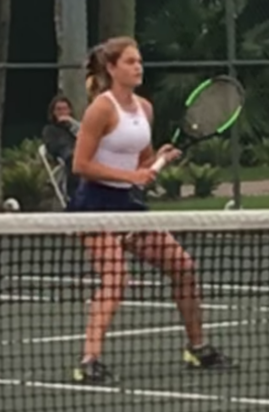 Katriin Saar at 2017 Orange Bowl, where she won the Girls 16s